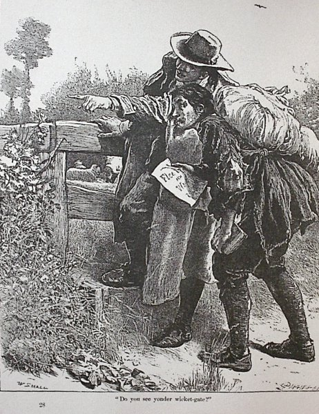 Do you see yonder wicket-gate?